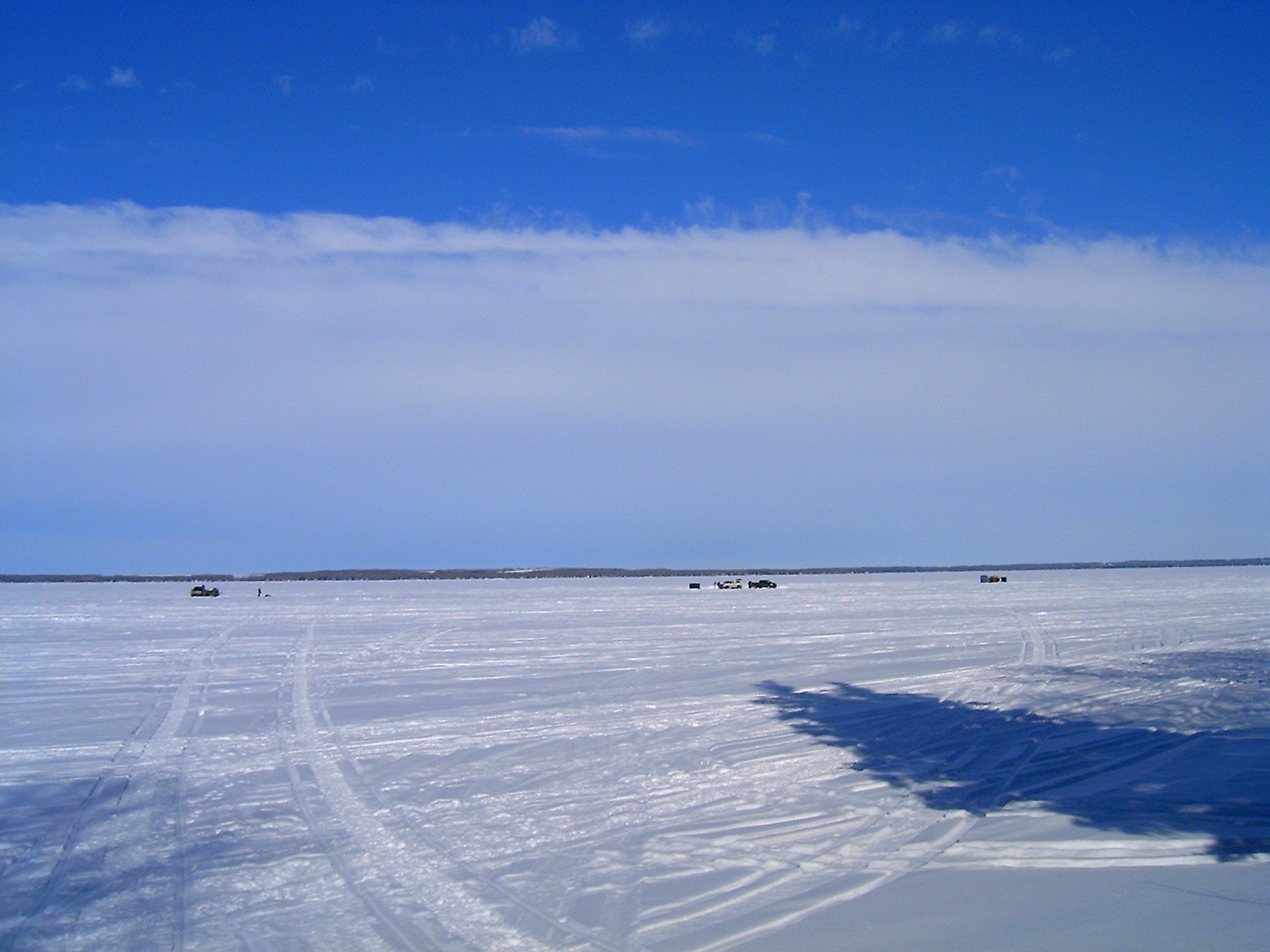 Ice fishing shacks on Pigeon Lake at Pigeon Lake Provincial Park, Alberta